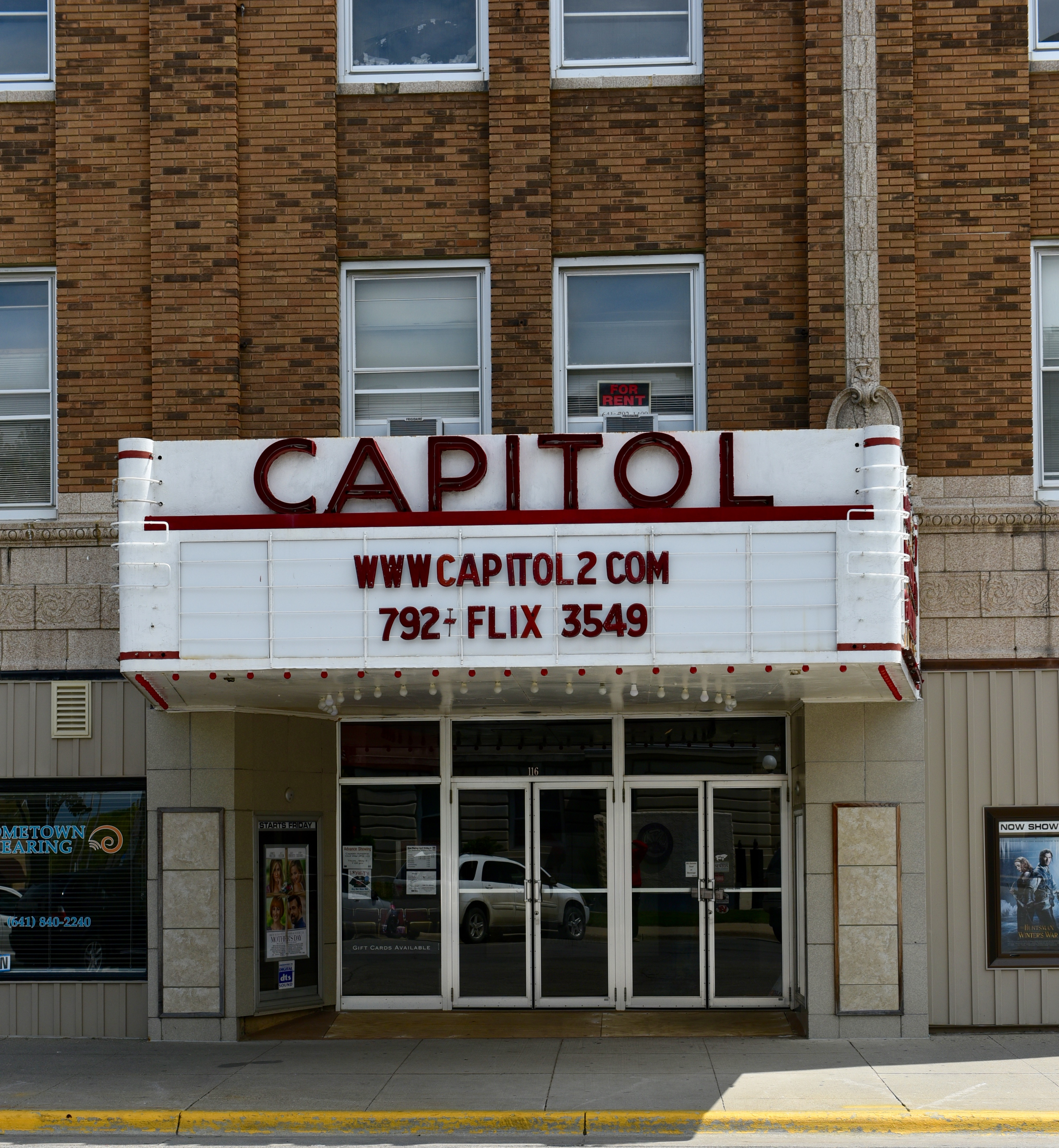 Newton Downtown Historic District